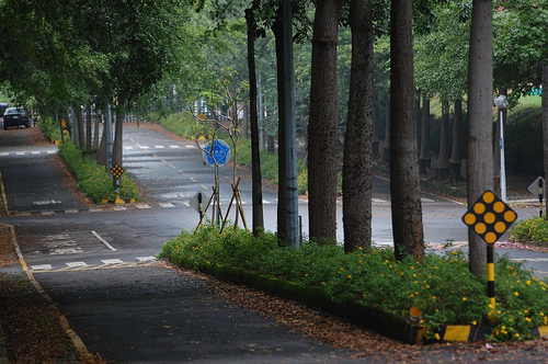 Taiwan National Chung Cheng University Campus